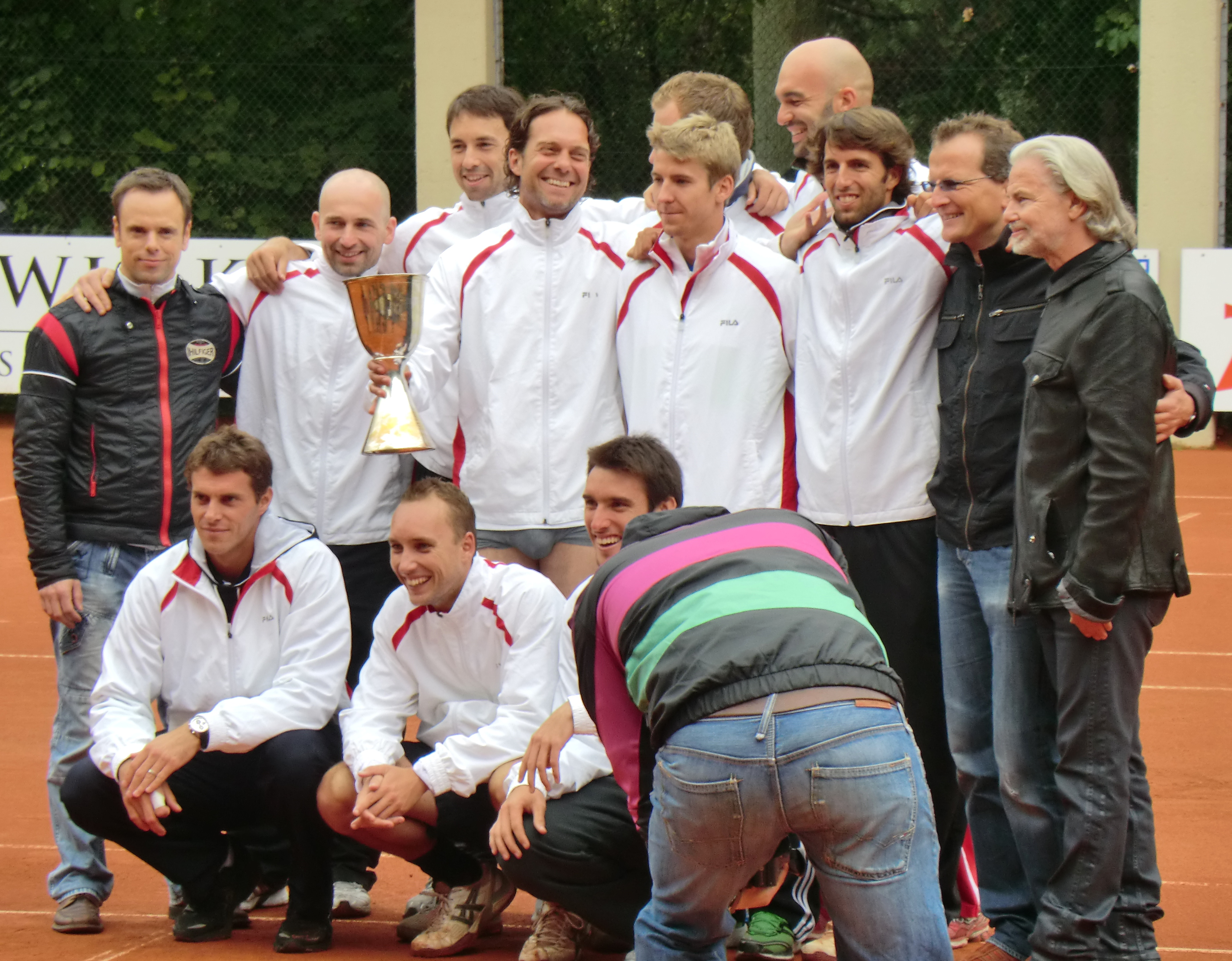 The TK Kurhaus Aachen team celebrates the German Tennis-Bundesliga 2011 season championship